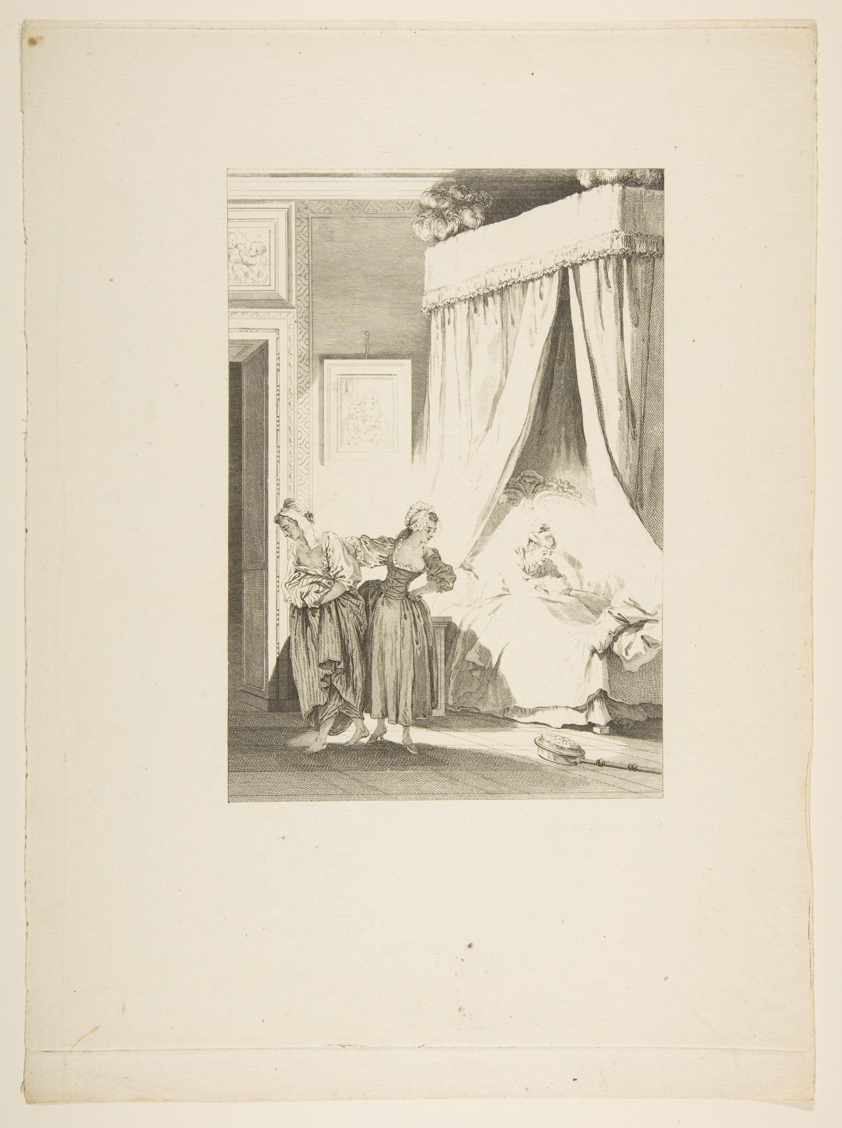 Print; Prints